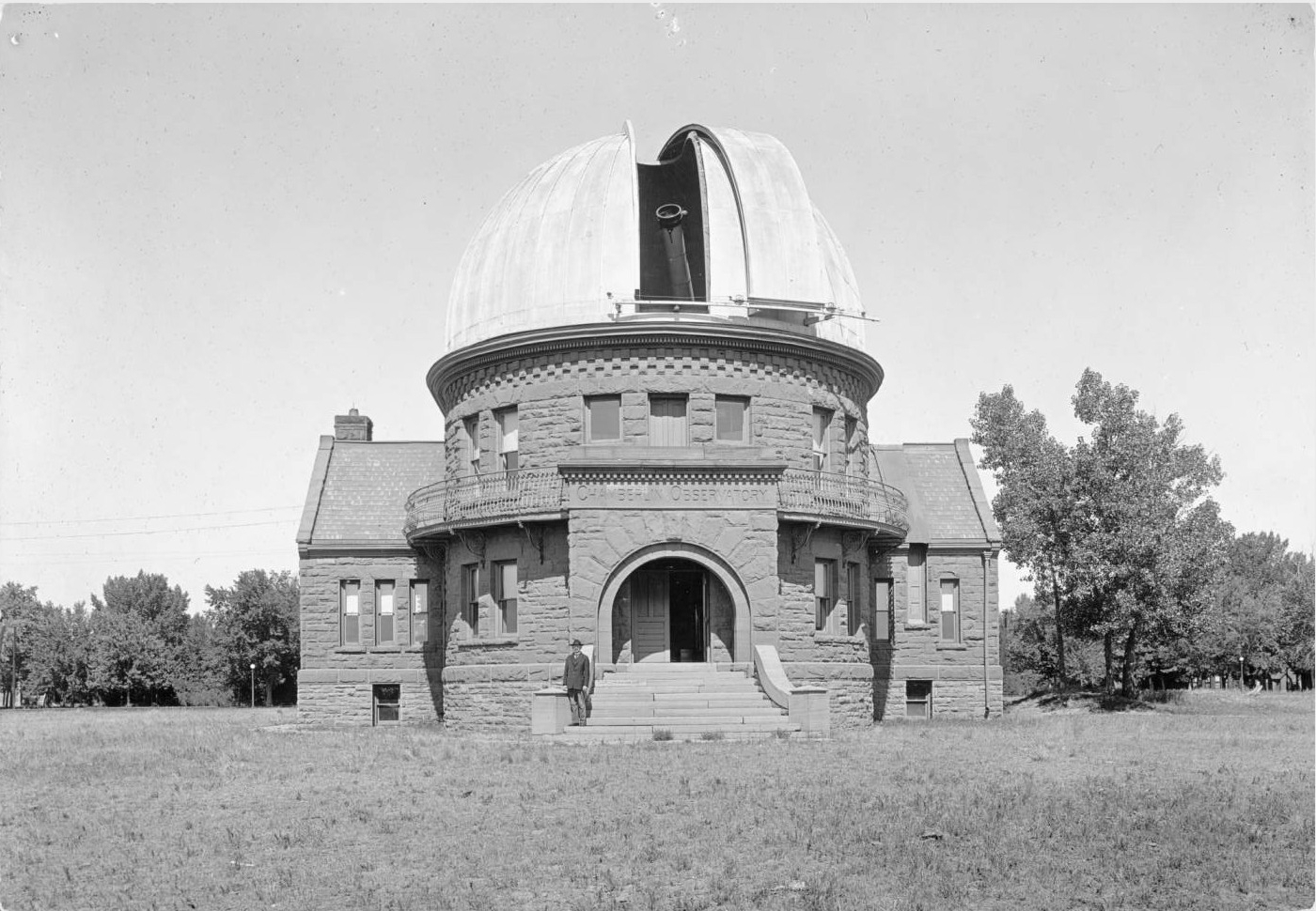 A man poses on the steps of the Chamberlin Observatory at Filmore Street and Warren Avenue on the Campus of the University of Denver, Colorado. The Romanesque structure, was designed by Robert S. Roeschlaub, and was constructed from rusticated stone blocks and includes a central rotunda and domed roof. A panel of the dome is pulled back and a telescope is positioned in the opening.